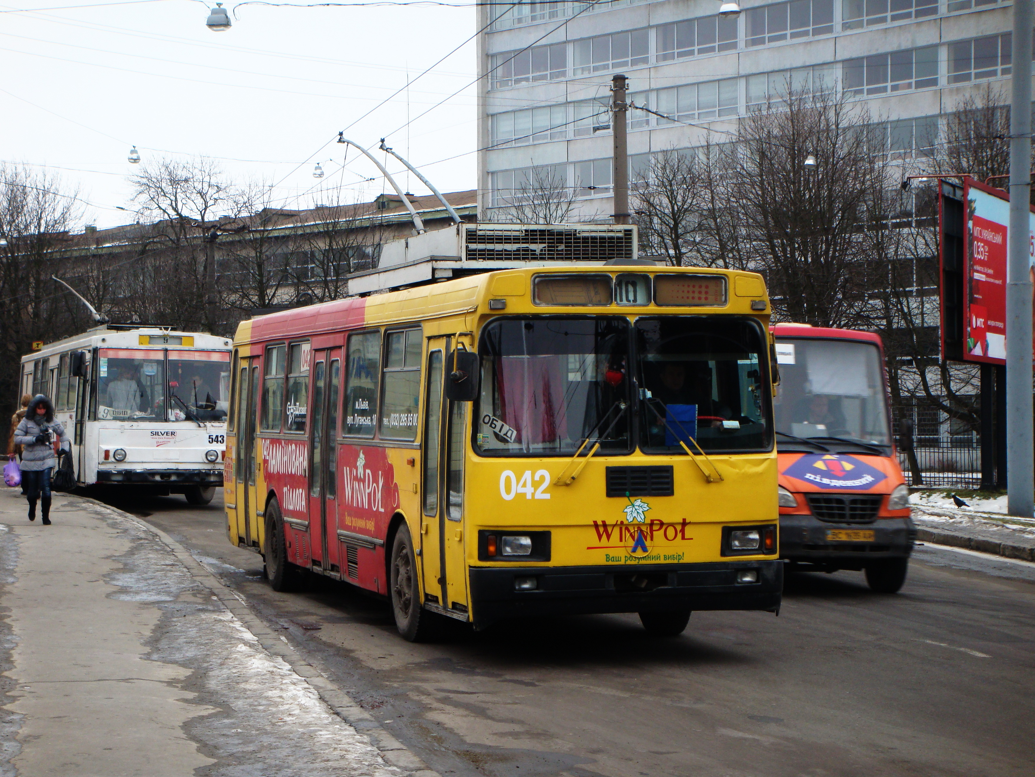 Trolleybus LAZ-52522 on route 10 in Lviv. Built appr. 1997 Lvivelectrotrans operator.